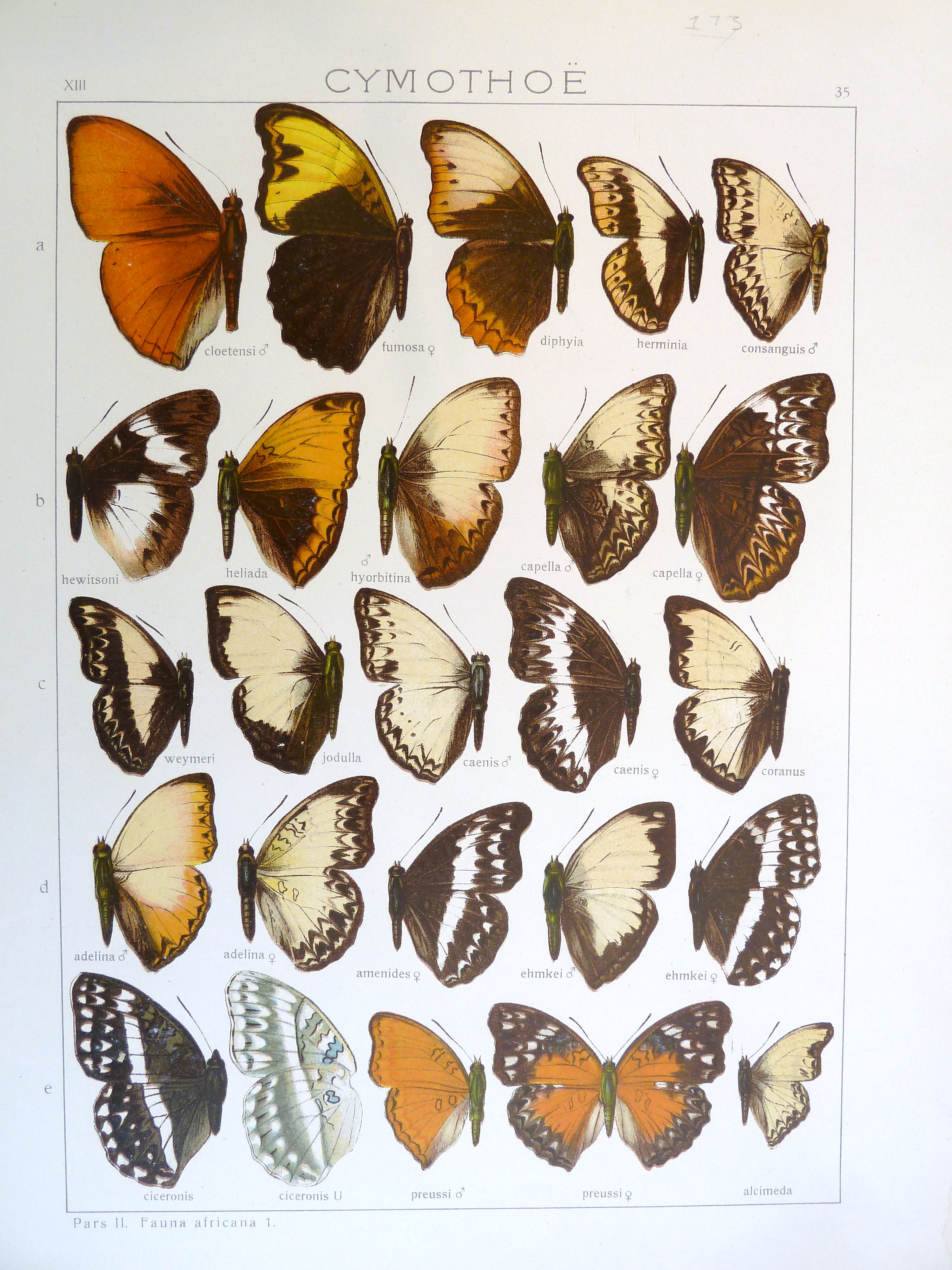 Adalbert Seitz Die Gross-Schmetterlinge der Erde 13: Die Afrikanischen Tagfalter. Plate XIII 35 Cymothoe lucasii cloetensi Seeldrayers, 1896 fumosa Staudinger synonym for Cymothoe haynae Dewitz, 1886 Cymothoe haynae diphyia Karsch, 1894 Cymothoe herminia (Grose-Smith, 1887) Cymothoe consanguis Aurivillius, 1896 hewitsoni Staudinger, 1889, synonym for Cymothoe indamora indamora (Hewitson, 1866) Cymothoe heliada (Hewitson, 1874) Cymothoe hyarbita hyarbitina Aurivillius, 1898 Cymothoe capella (Ward, 1871) Cymothoe weymeri Suffert, 1904 Cymothoe jodutta (Westwood, 1850 Cymothoe caenis (Drury, [1773]) Cymothoe coranus Grose-Smith, 1889 Cymothoe hyarbita (Hewitson, 1866) ssp. hyarbitina Aurivillius, 1898 Cymothoe adelina, synonym for Cymothoe caenis (Drury, 1773) Cymothoe jodutta ehmckei Dewitz, 1887 Cymothoe jodutta ciceronis (Ward, 1871) Cymothoe preussi Staudinger, 1890 Cymothoe alcimeda (Godart, [1824])